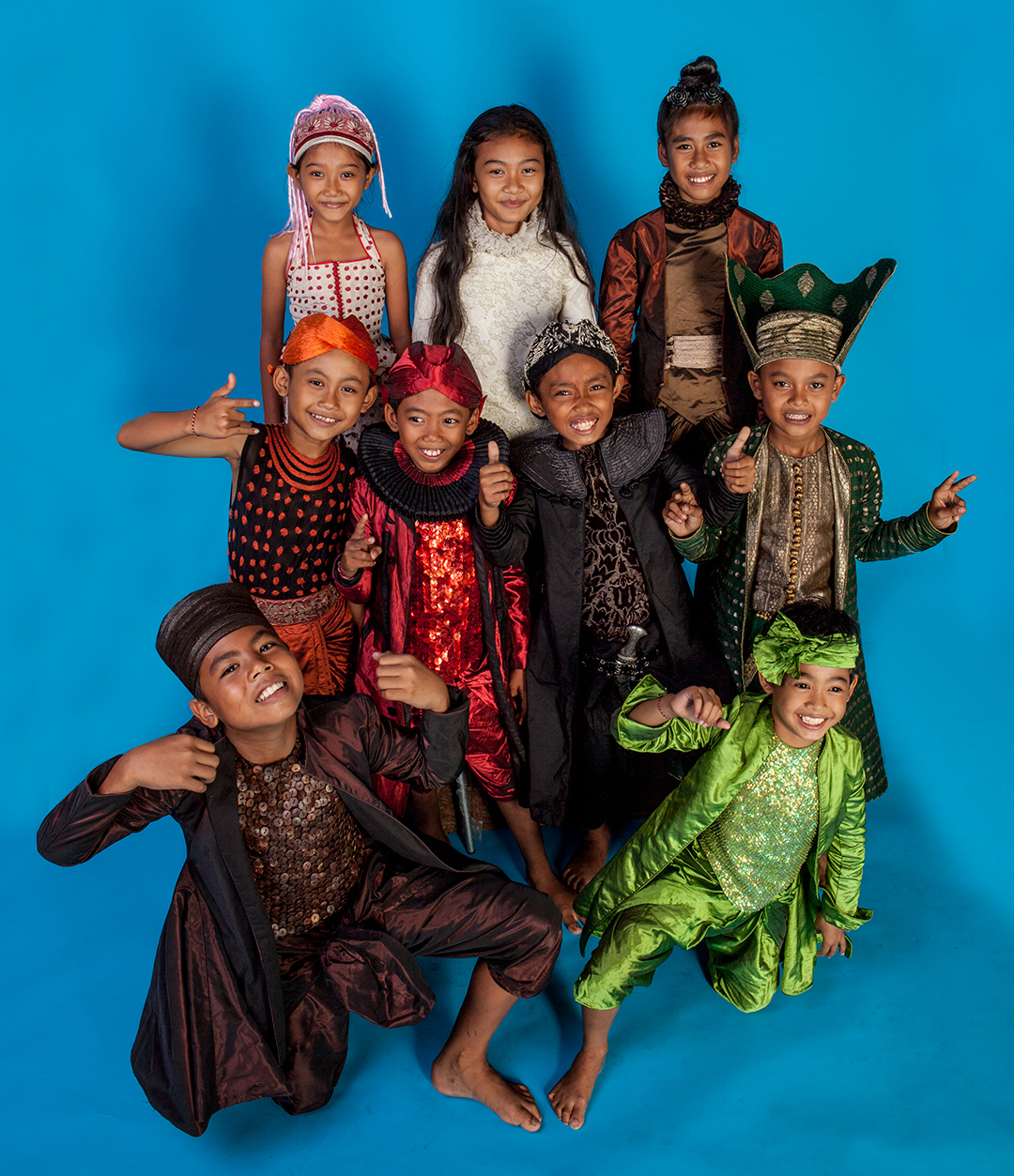 sandermander is copyright holder go this picture